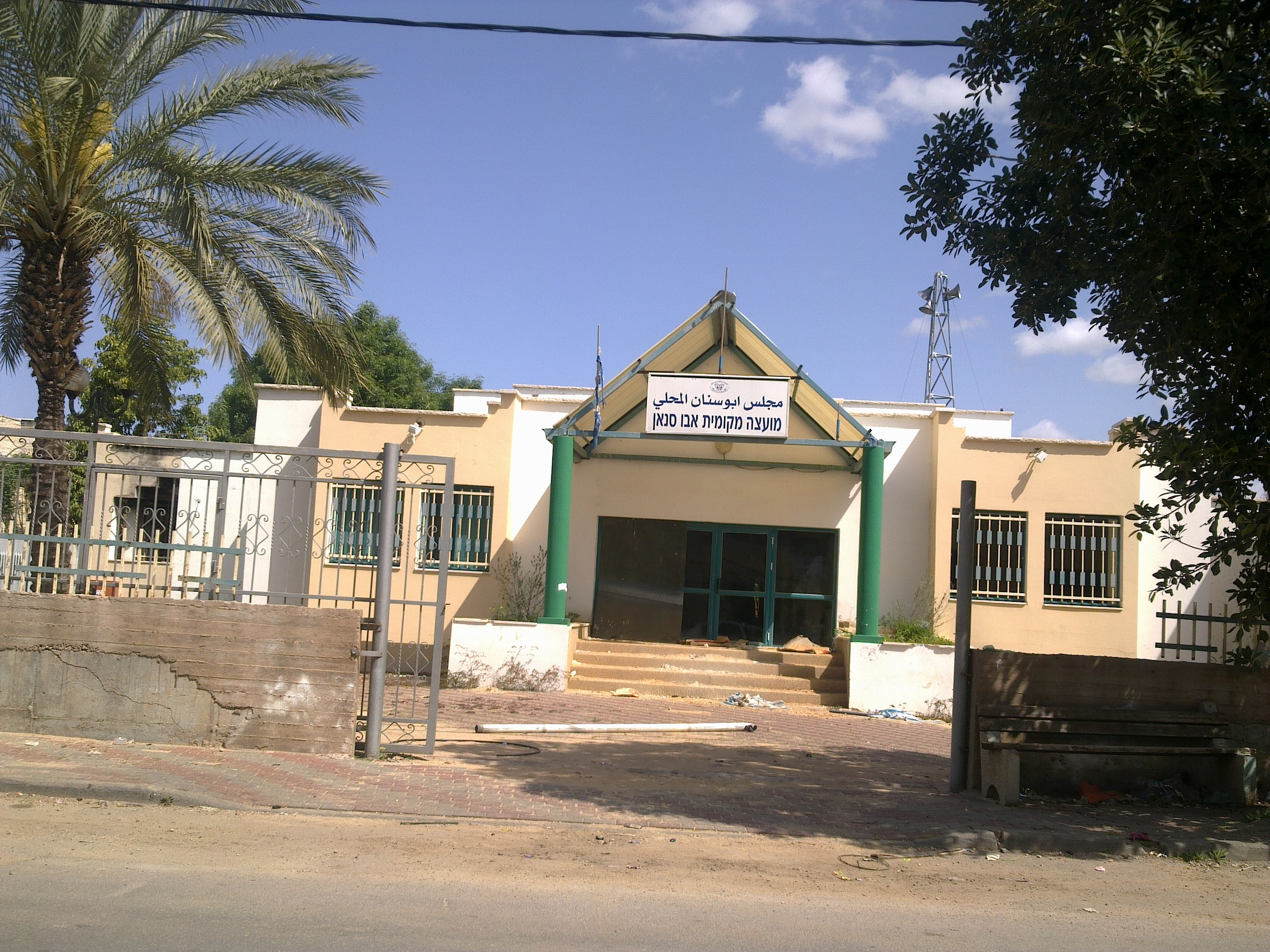 local council building in Abu Sinan בניין המועצה המקומית באבו סנאן